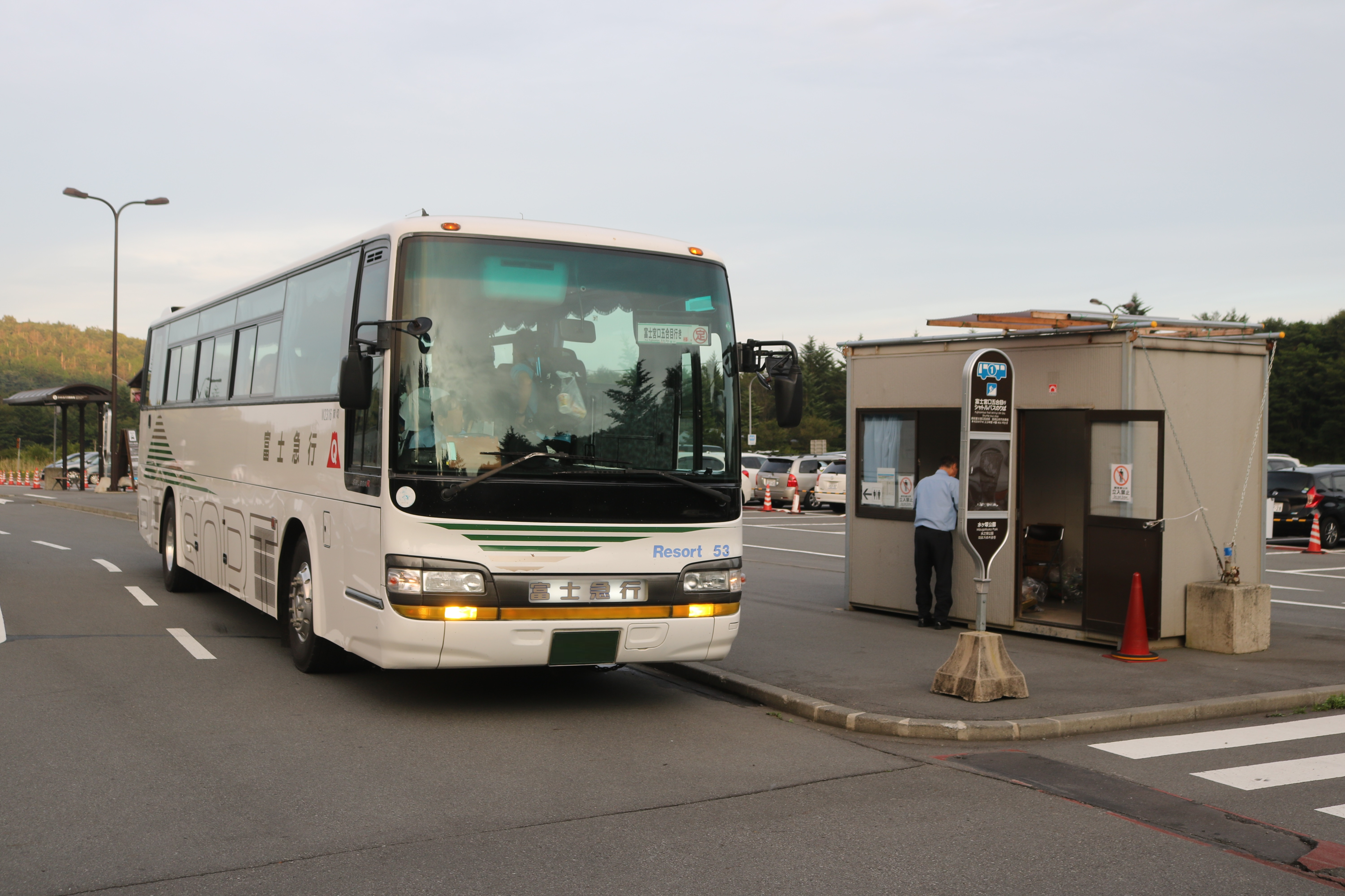 Mizugatsuka Park Bus stop for Fujinomiya Root of Mount Fuji in Susono, Shizuoka Prefecture, Japan.